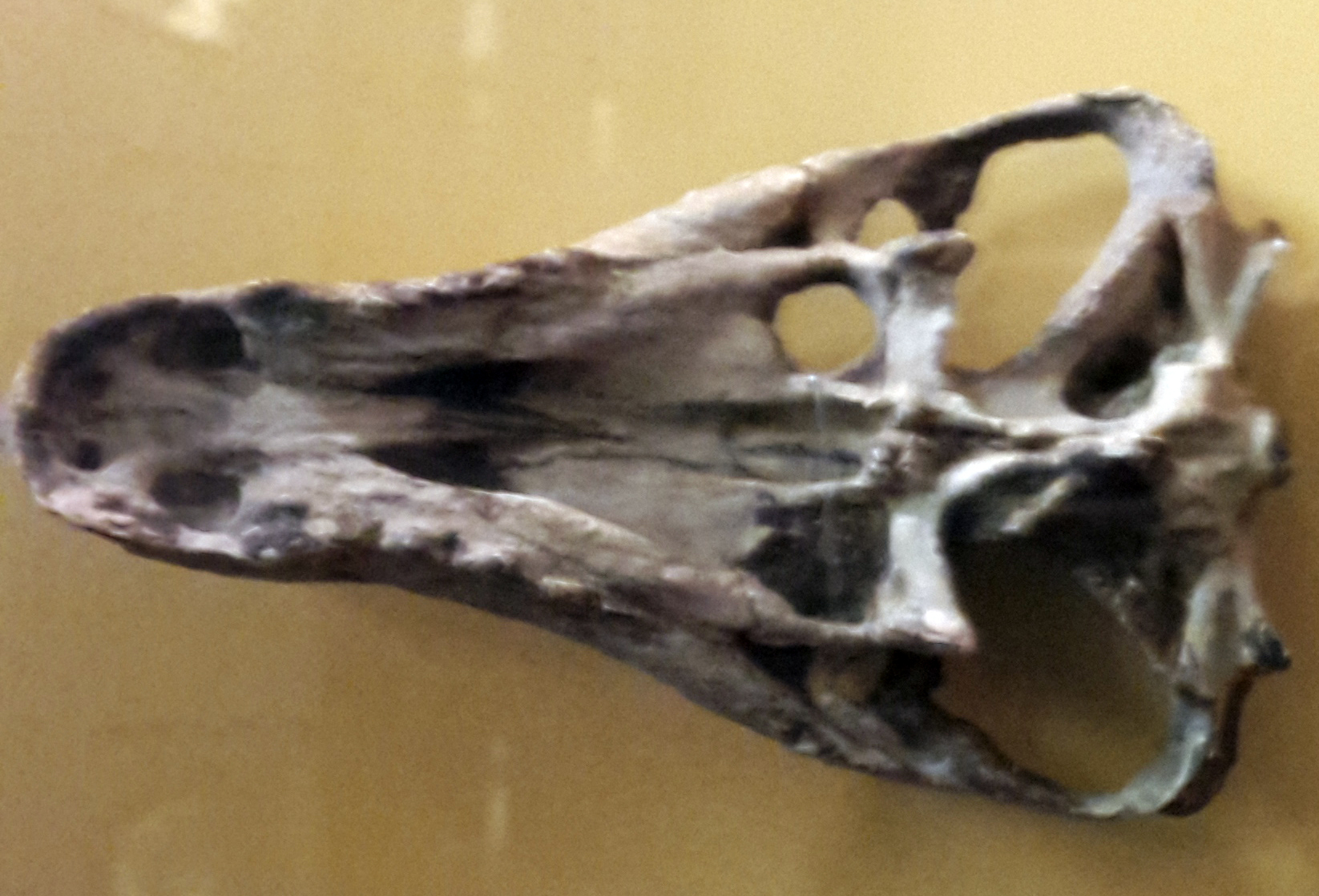 Regisaurus skull cast, Museum of Evolution of Polish Academy of Sciences, Warsaw.